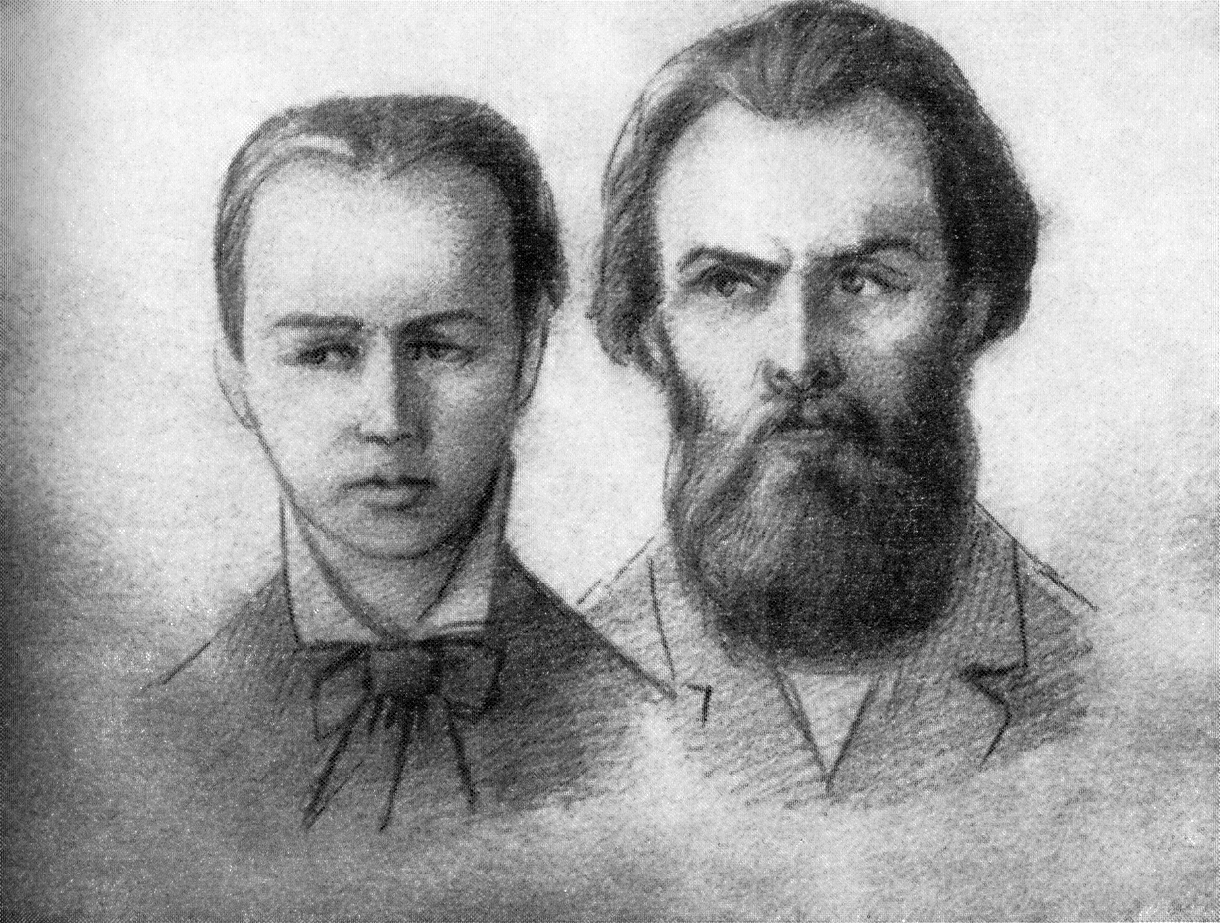 A. Zhelyabov and S. Perovskaya at the Pervomartvtsi trial